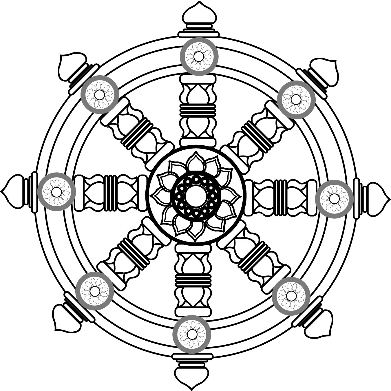 United States Air Force Buddhist Chaplain badge Courtesy USAF